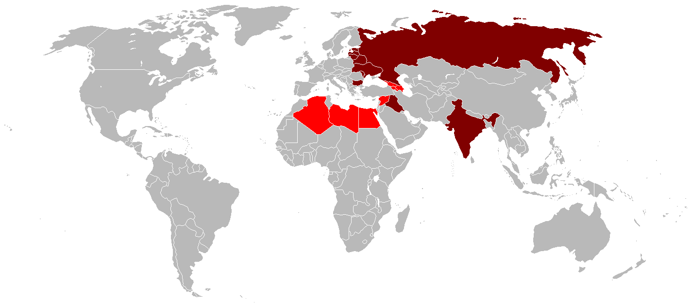 Updated MiG-25 Operators Map